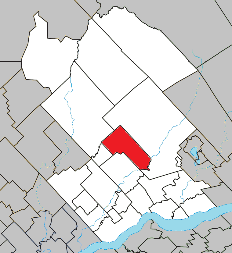 Location of Saint-Léonard-de-Portneuf, Quebec within Portneuf Regional County Municipality.